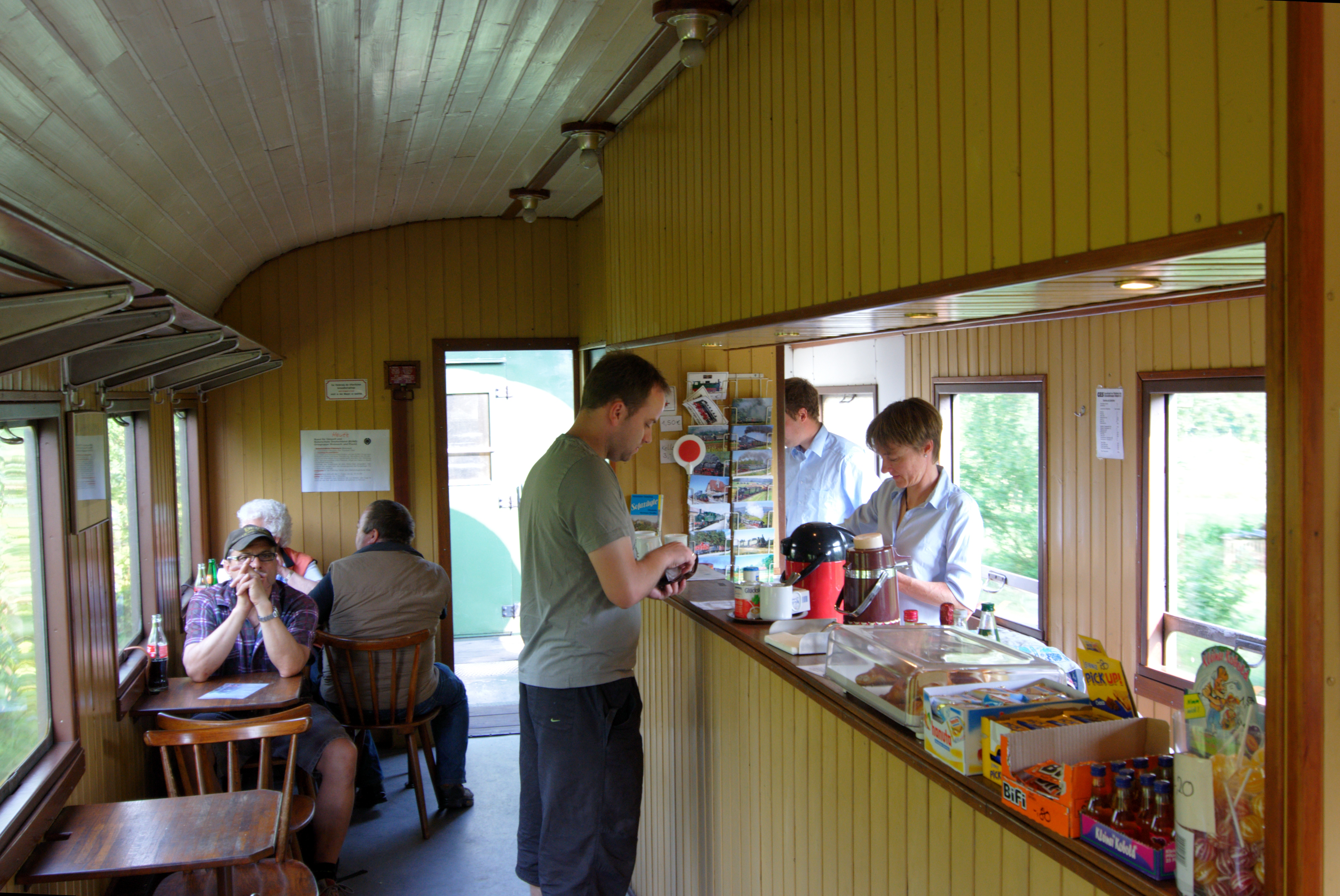 Historic restaurant wagon of the Gesellschaft zur Erhaltung von Schienenfahrzeugen